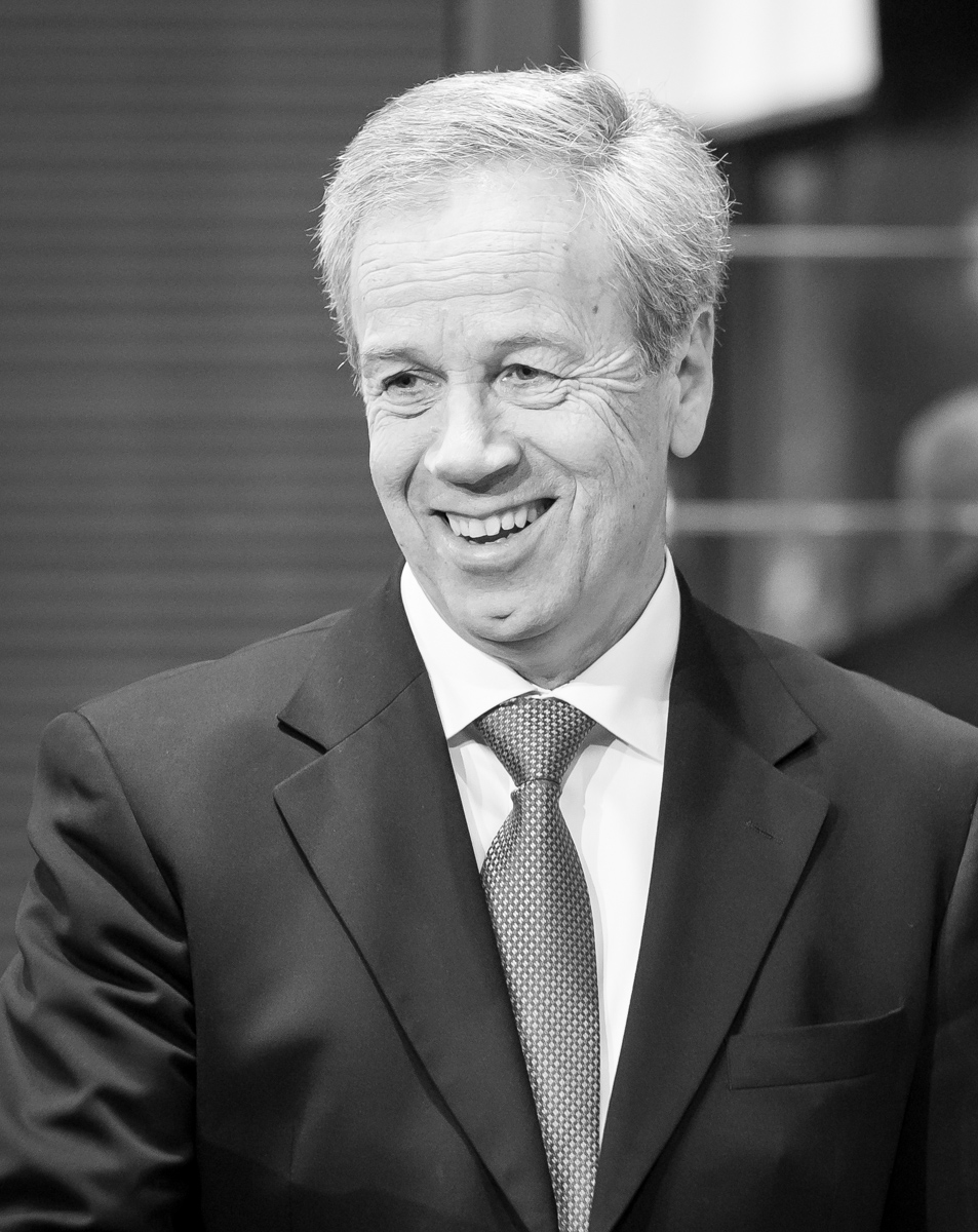 Governor Øystein Olsen at his annual address in February 2016